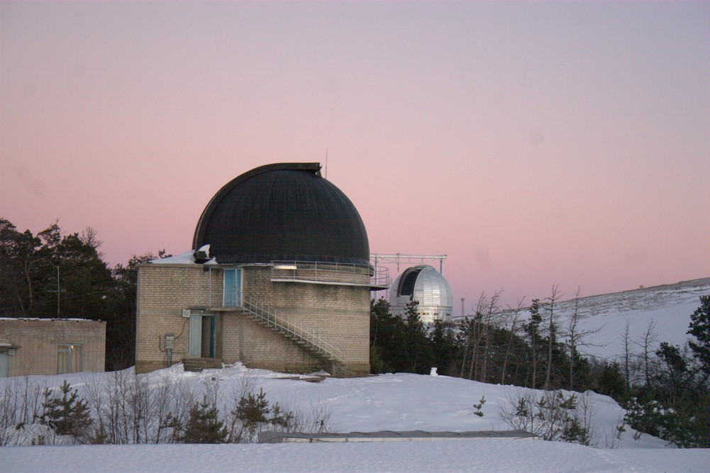 North Caucasus (Zelenchukskaya) Station of Kazan University Observatory, MPC code 114